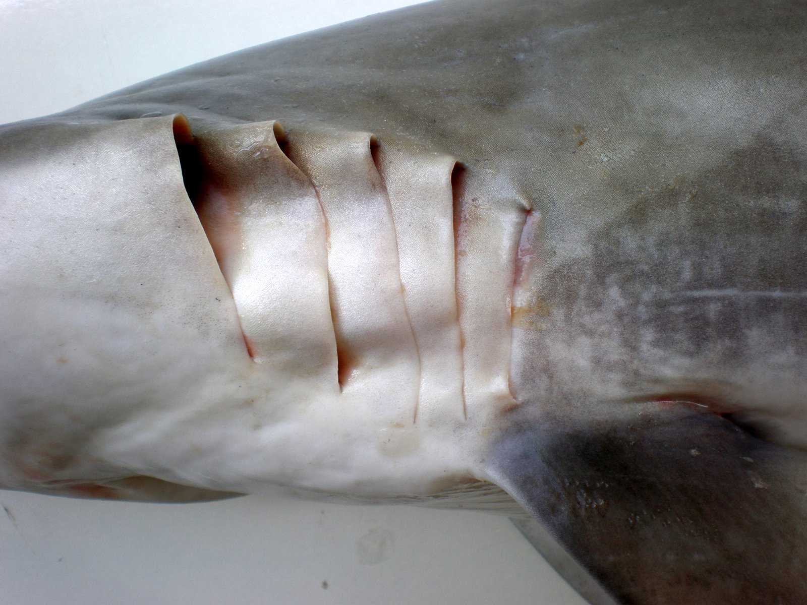 Carcharhinus brevipinna, male. Deail of gills. Locality: from fish market, Nouméa, New Caledonia (probably caught near Nouméa City). Total Length 860 mm, Weight 2,800 grams. Date 2009-10-23.